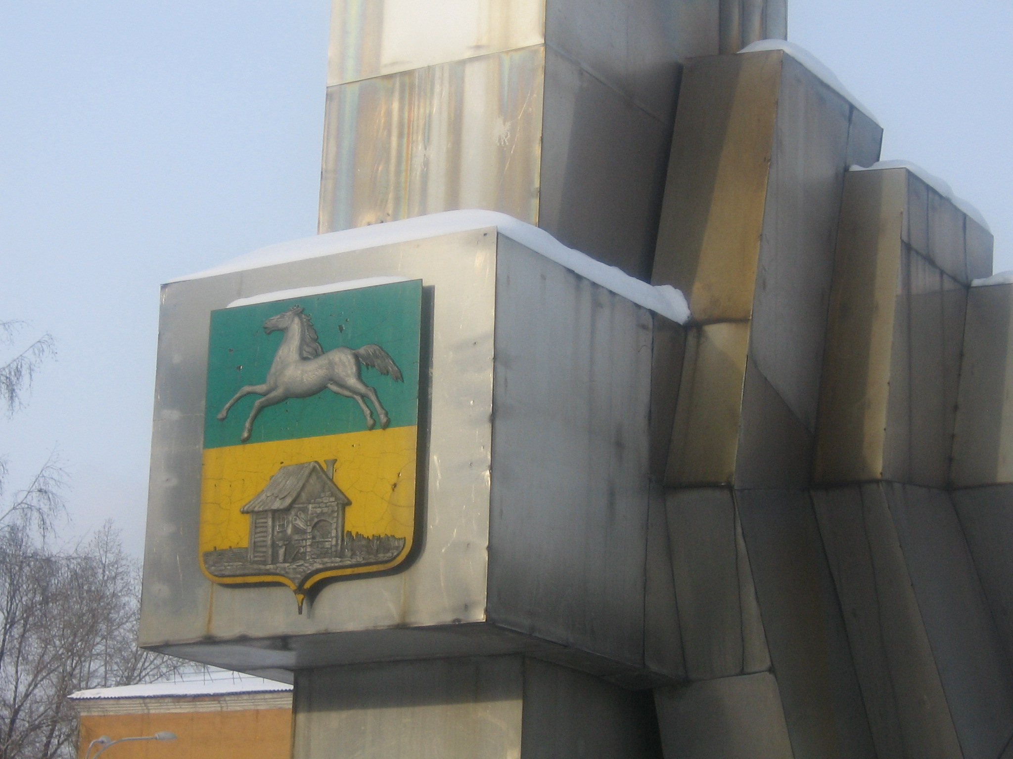 Novokuznetsk Coat of Arms on the Monument "50 Years of Novokuznetsk", Kirova Street, Novokuznetsk (Russia).